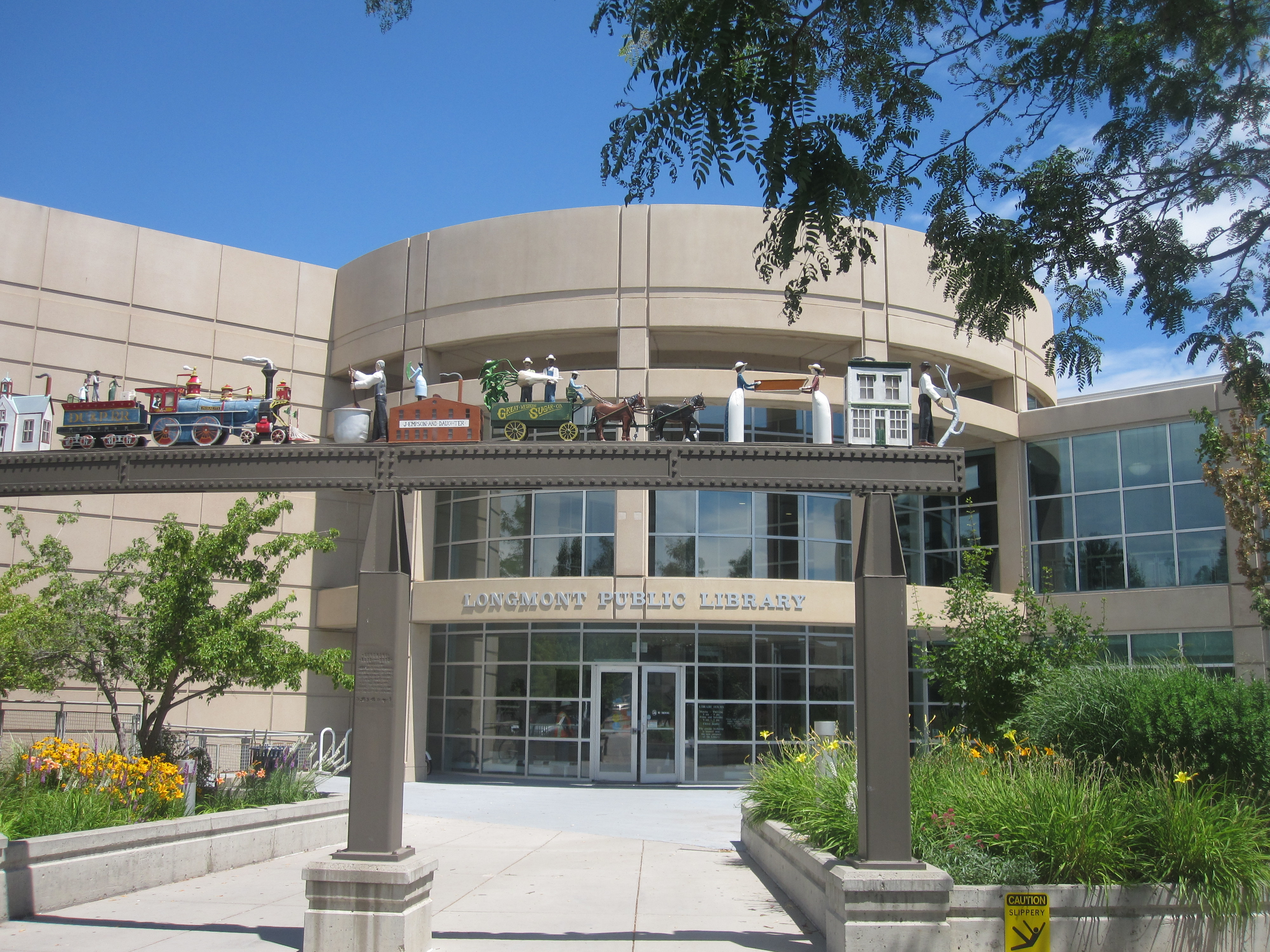 I took photo in Longmont, CO, with Canon camera.